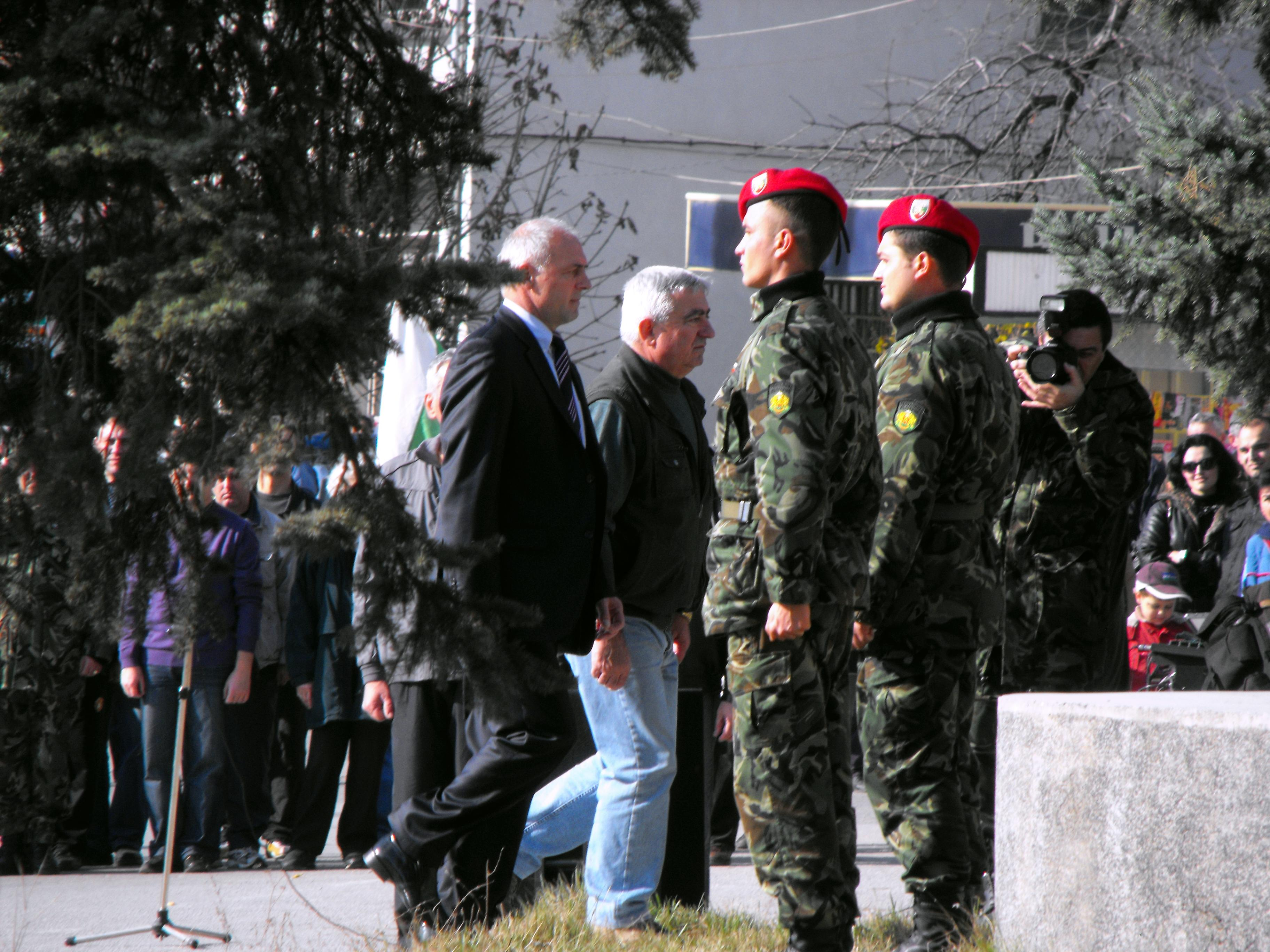 General-leuitenant Ivan Dobrev - chief of Bulgarian Army land forces and Georgi Georgiev - mayor of Slivnitsa.